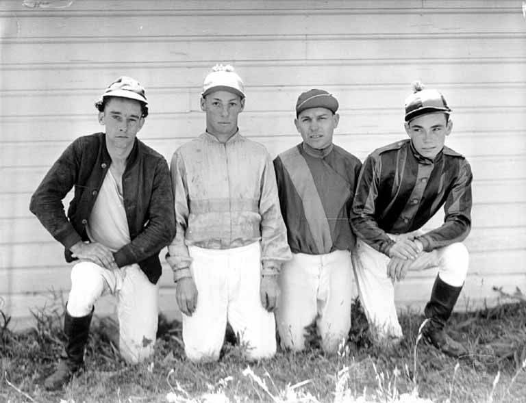 Four jockeys kneeling in the grass in front of a stable, Washington State, ca. 1929-1932 Photographer: Gorst, Vern C. Subjects (LCTGM): Jockeys--Washington (State) Digital Collection: Society and Culture Collection Item Number: SOC1587 Persistent URL: Visit Special Collections page for information on ordering a copy. University of Washington Libraries. Digital Collections